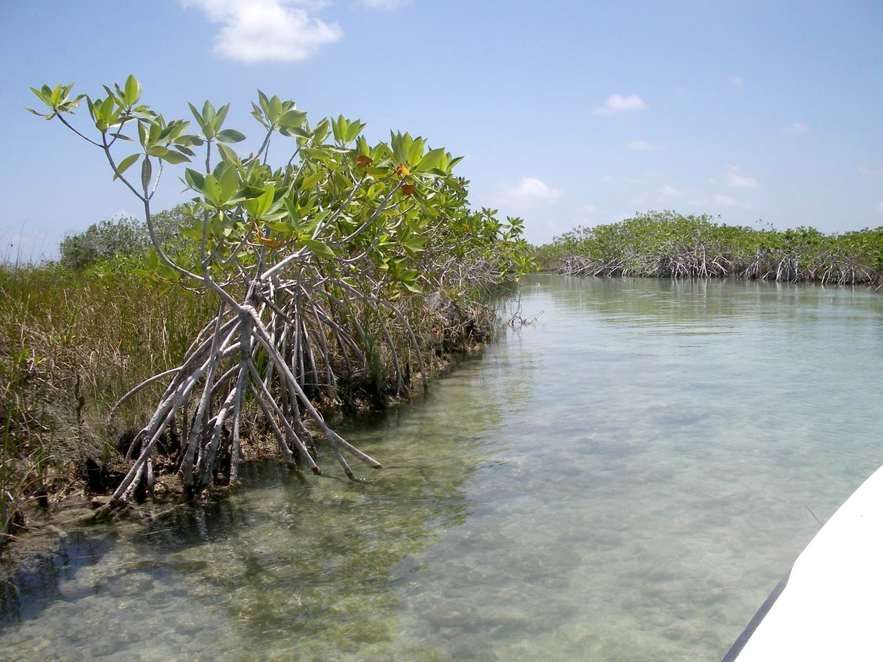 Sian Ka'an boat tour - Doing a guided tour at Sian Ka'an biosphere reserve